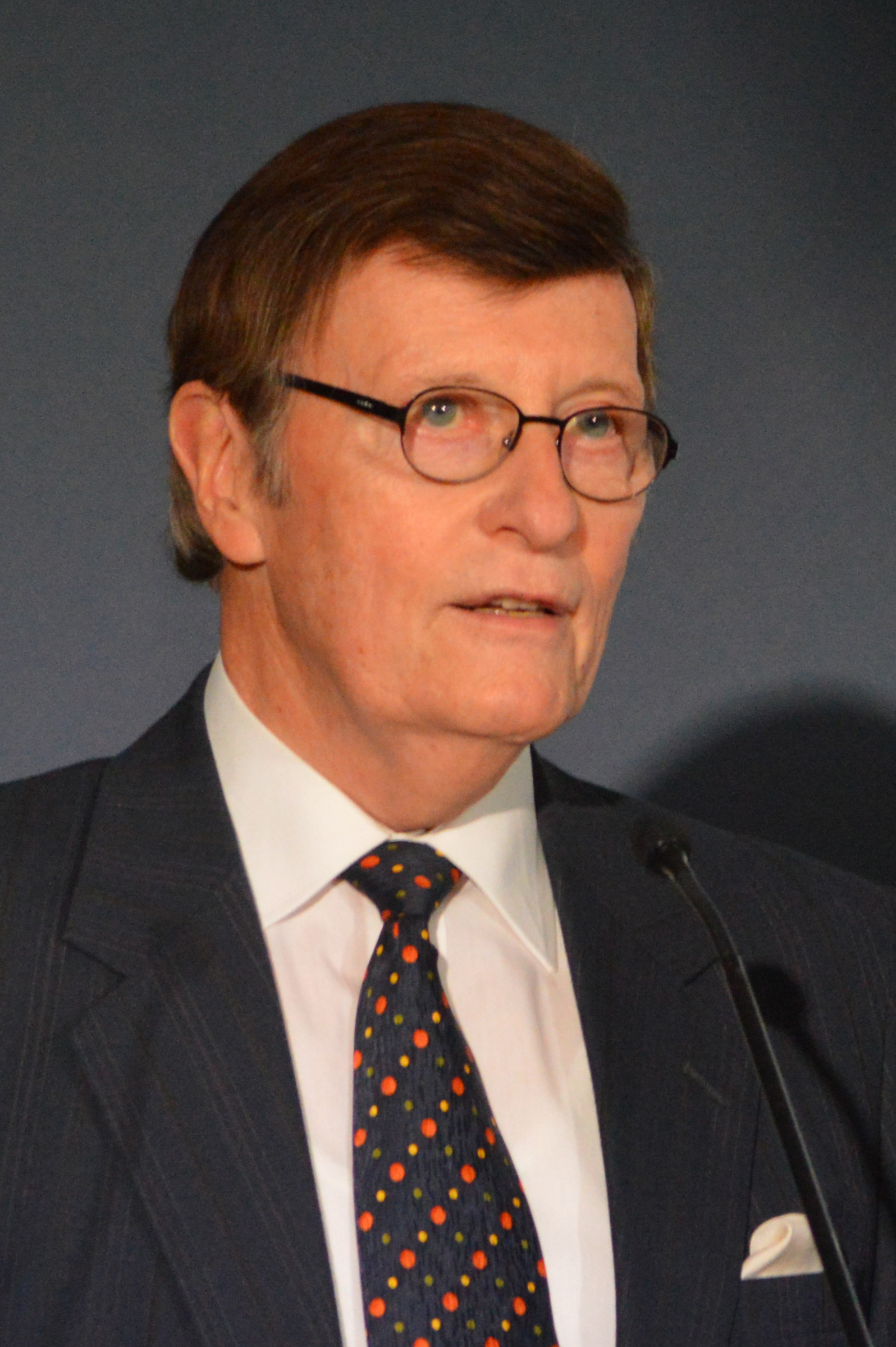 Riaan Cruywagen acts as master of ceremonies at Huisgenoot's 100th birthday party at the Media24 Centre, Cape Town